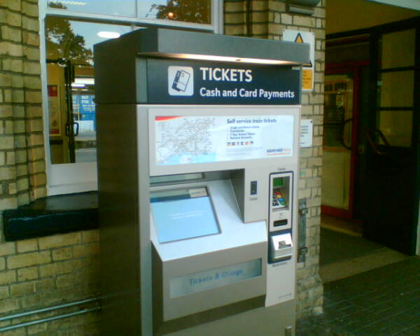 Photographed by StairAl on 04/10/2006 at Aldershot railway station. Photographed by StairAl on 04/10/2006 at Aldershot railway station.